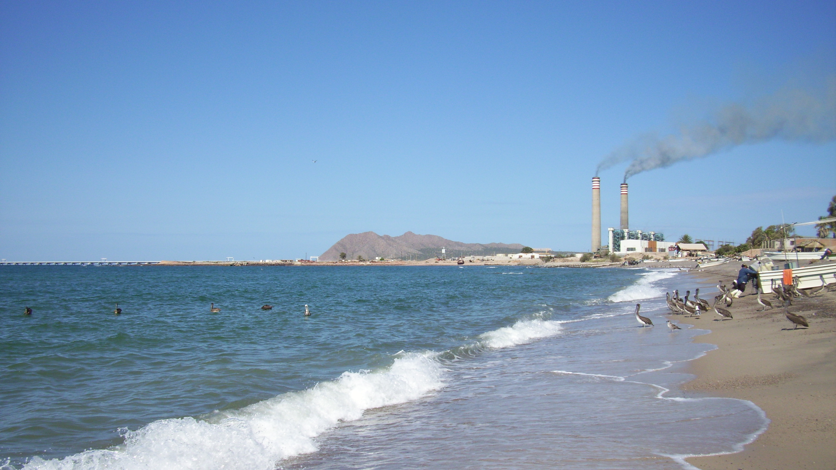 Beach at Puerto Libertad. Electric power plant is in the background.